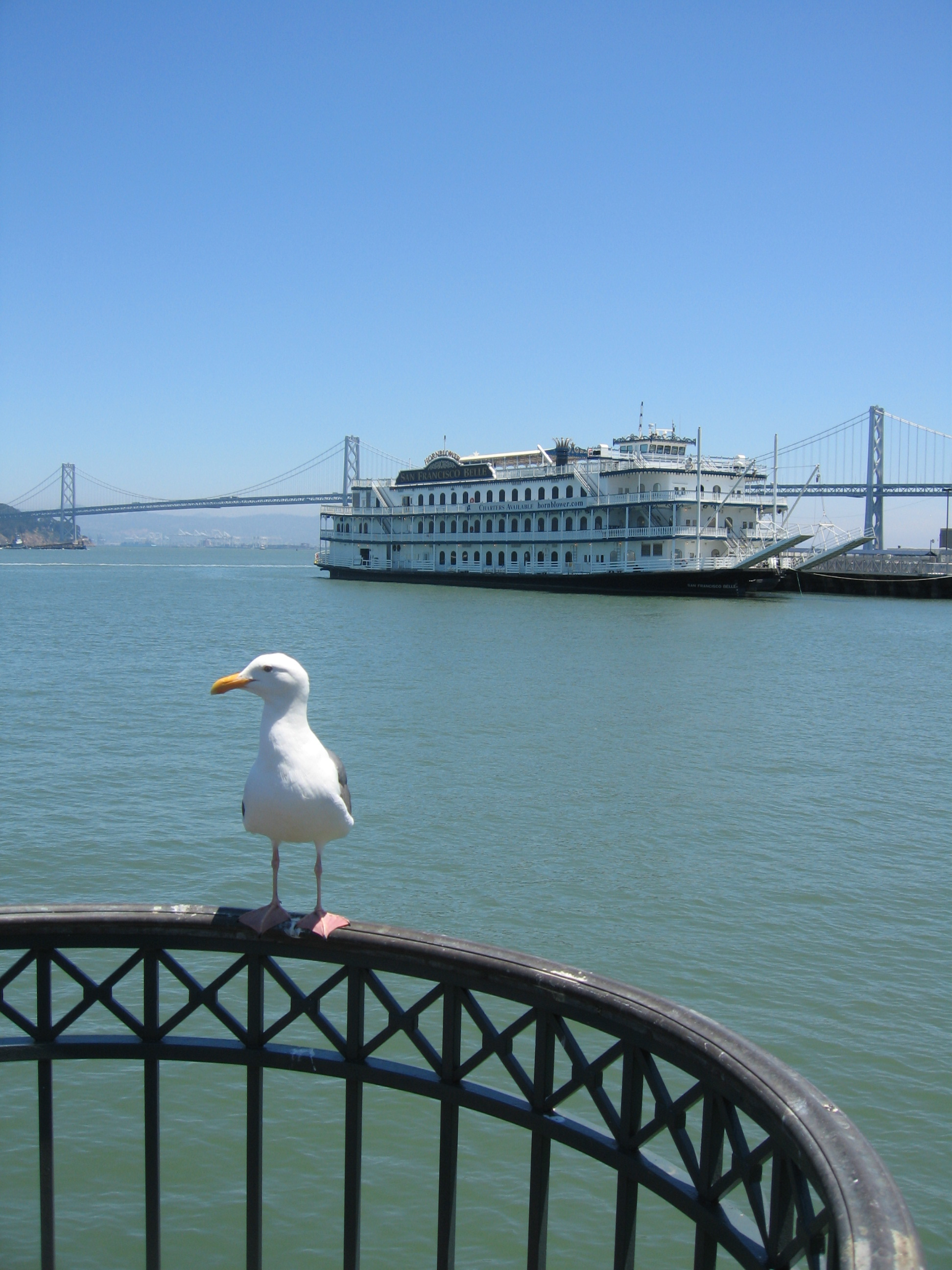 Western Gull with the San Francisco Belle in the background.